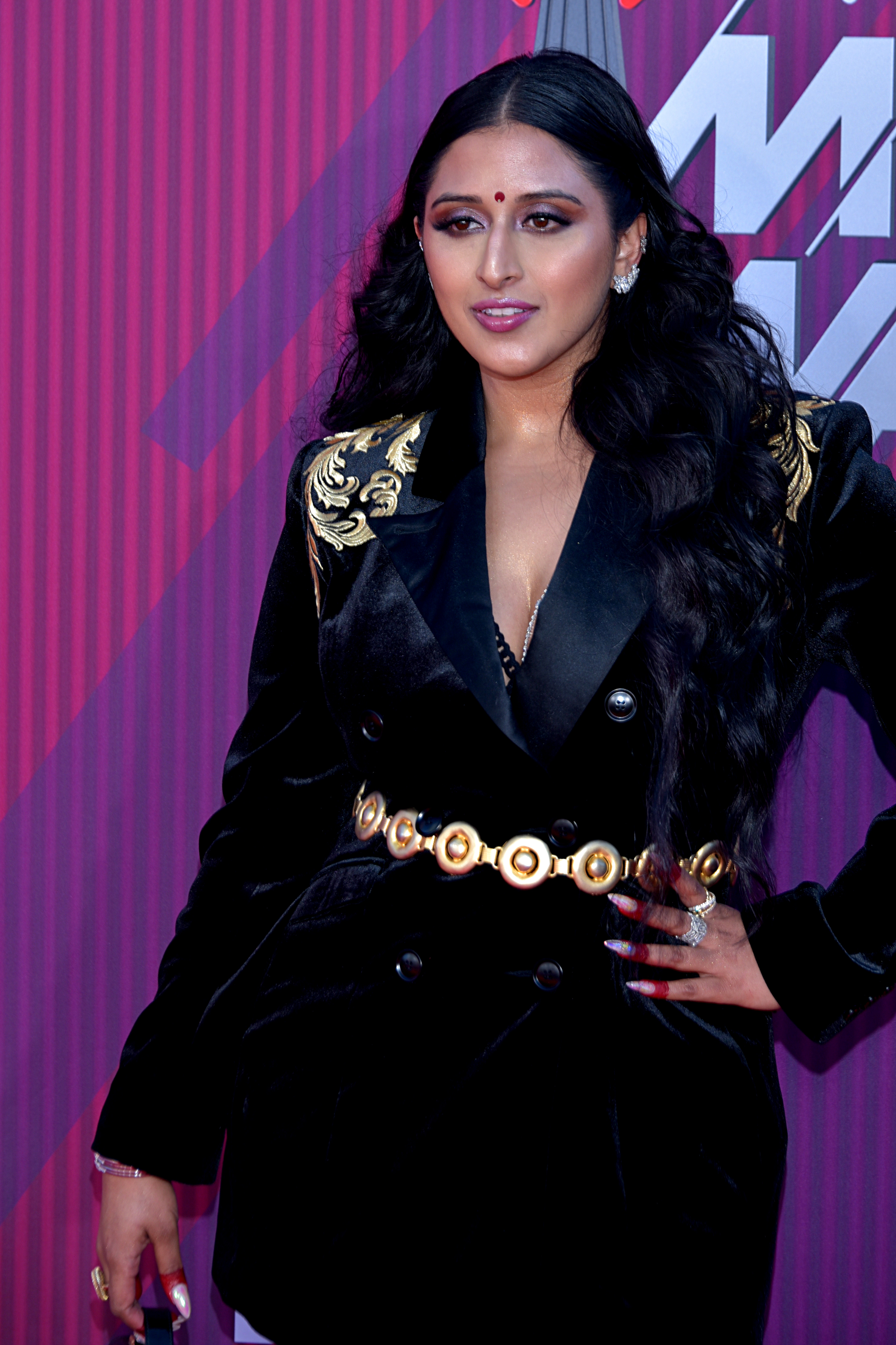 Raja Kumari at the 2019 iHeartRadio Music Awards in Los Angeles California on March 14, 2019 - Photo by Glenn Francis of